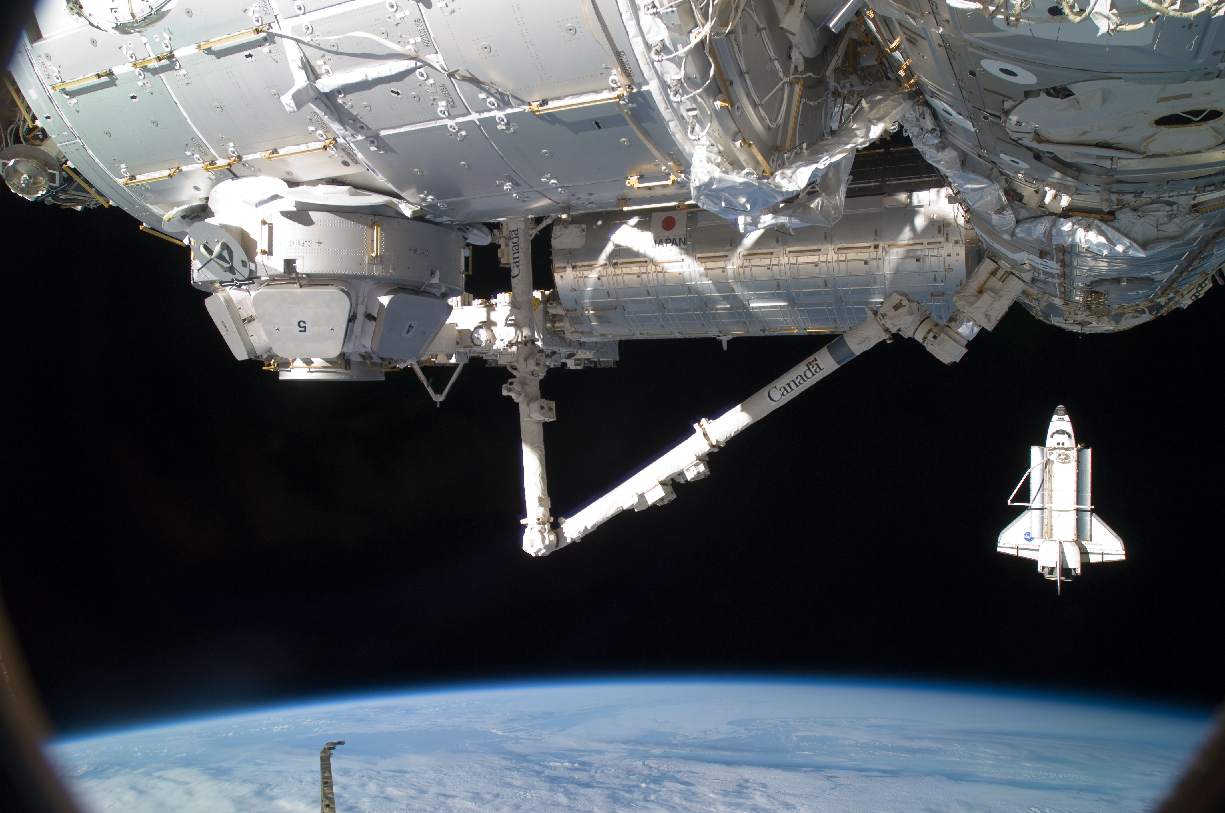 The space shuttle Endeavour is featured in this image photographed by an Expedition 22 crew member on the International Space Station soon after the shuttle and station began their post-undocking relative separation. Undocking of the two spacecraft occurred at 7:54 p.m. (EST) on Feb. 19, 2010. Also pictured are the newly-installed Tranquility node and Cupola (top foreground); along with the Canadarm2 and the Japanese Kibo complex. Earth's horizon and the blackness of space provide the backdrop for the scene.